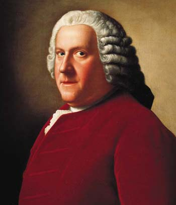 William Bentinck, 1st Graf Bentinck